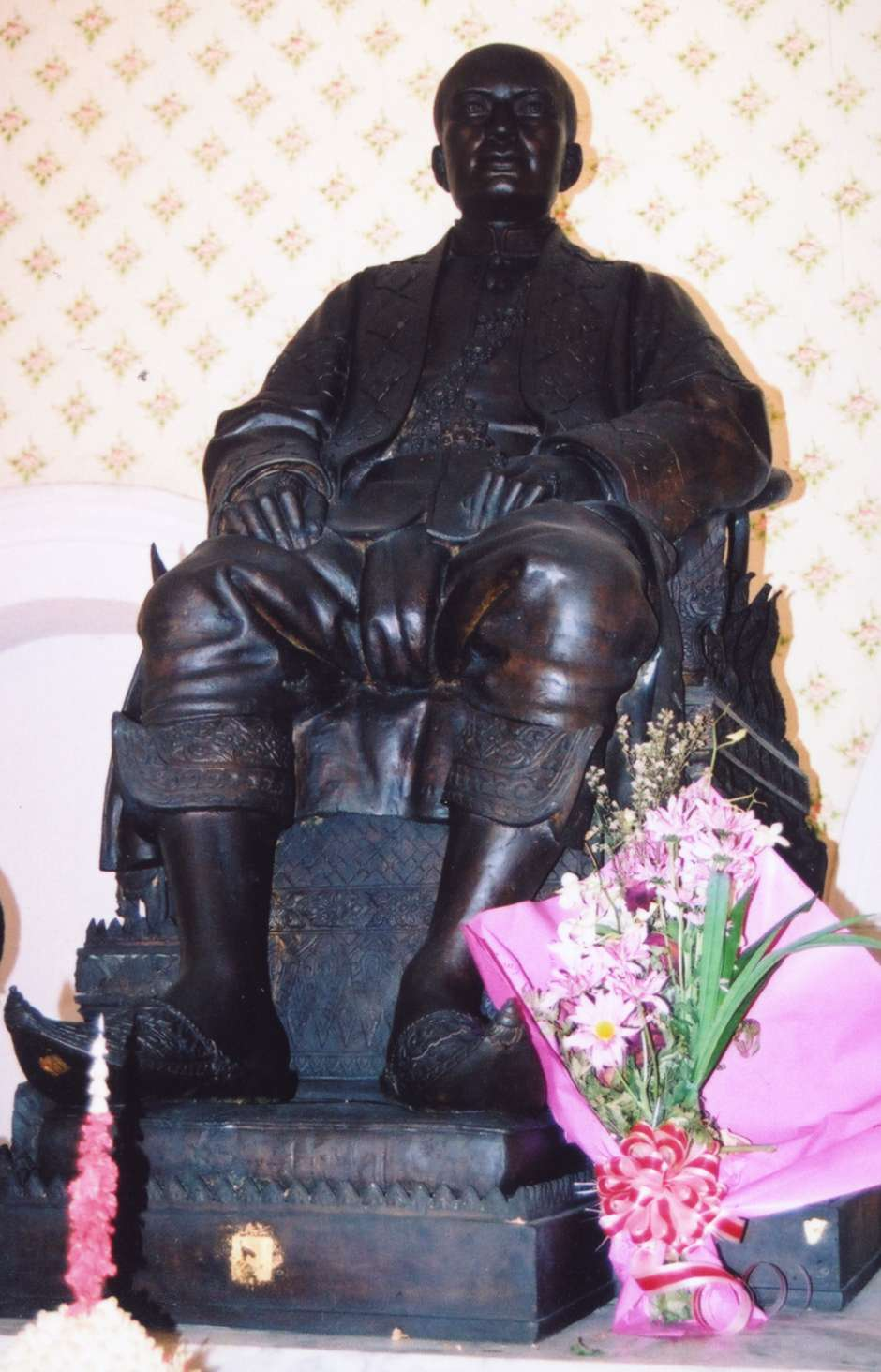 Statue of King Rama II (Buddha Loetla Nabhalai) of Thailand. Statue located in the European Sala of What Phra Samut Chedi, Samu Prakan. Photo taken by User:Ahoerstemeier on January 17 2005.